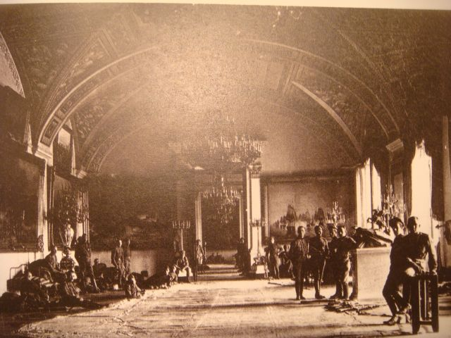 Junkers in rooms of Winter Palace, St. Petrsburg, Russia ready to defend against bolshevik's mutiny.